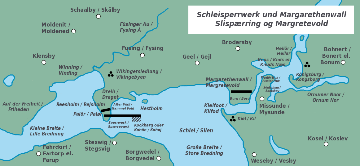 Bilingual Map of the Schleisperrwerk / Slispærring (German / Danish)